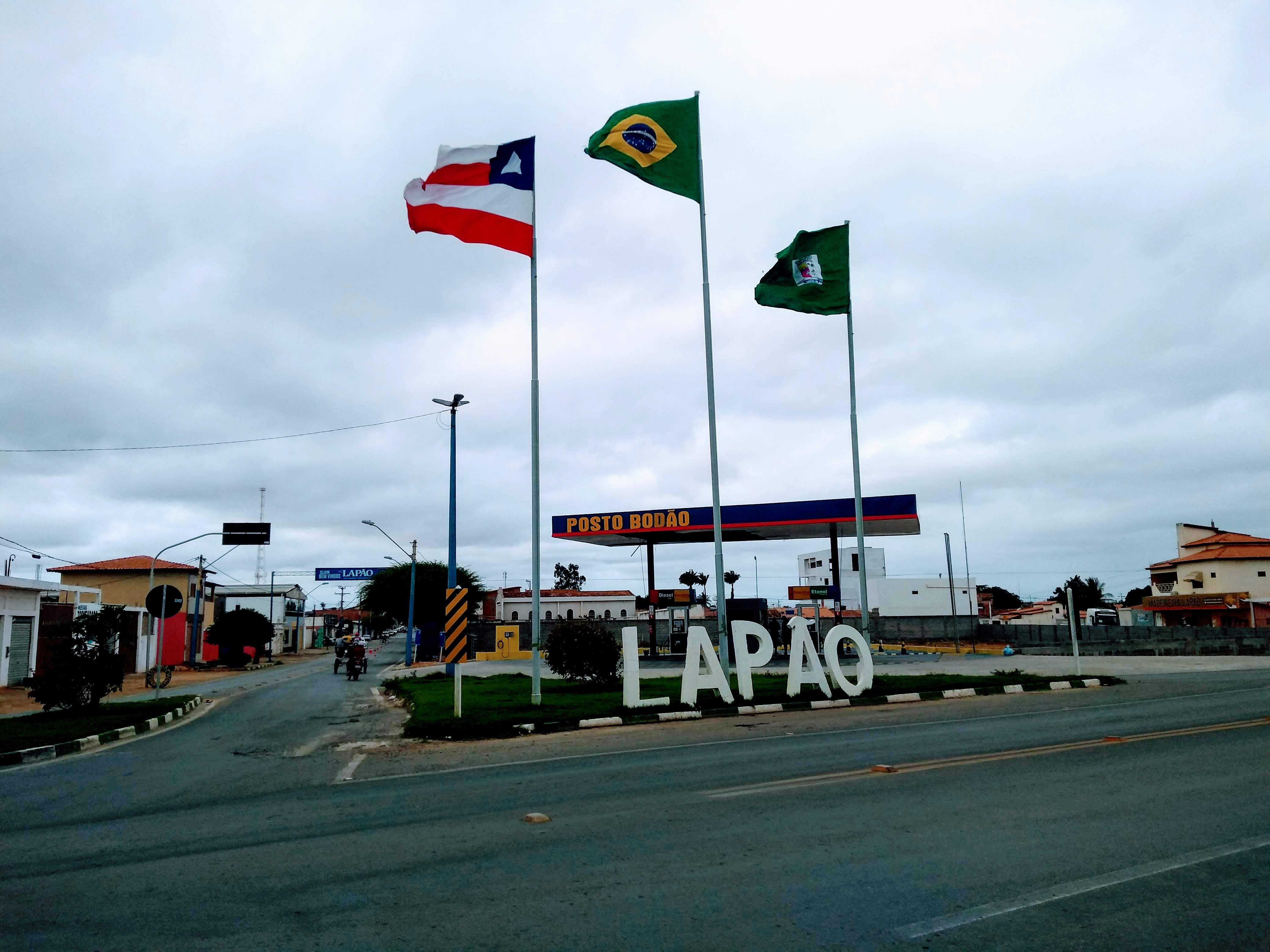 Entrance to the city of Lapão in Bahia